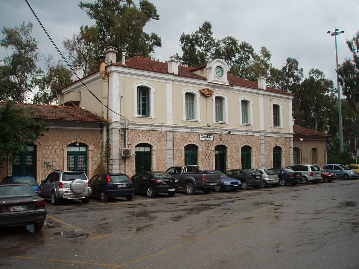 GREECE: Chalkis Railway Station, as seen from the car parking area.